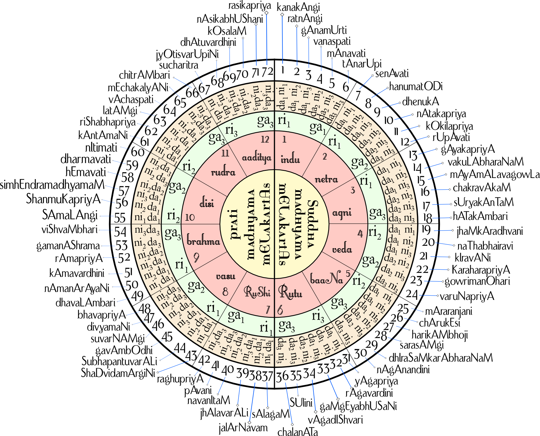 Melakarta is a collection of fundamental ragas (musical scales) in Carnatic music (South Indian classical music). The Katapayadi sankhya is a hashing method to determine the number of a melakarta raga from the first two syllables of the name of the raga. Read the chart from the circumference to the centre to identify the 7 composite swaras. On the prati-madhyamam side, please read d3n2 as d2n3.